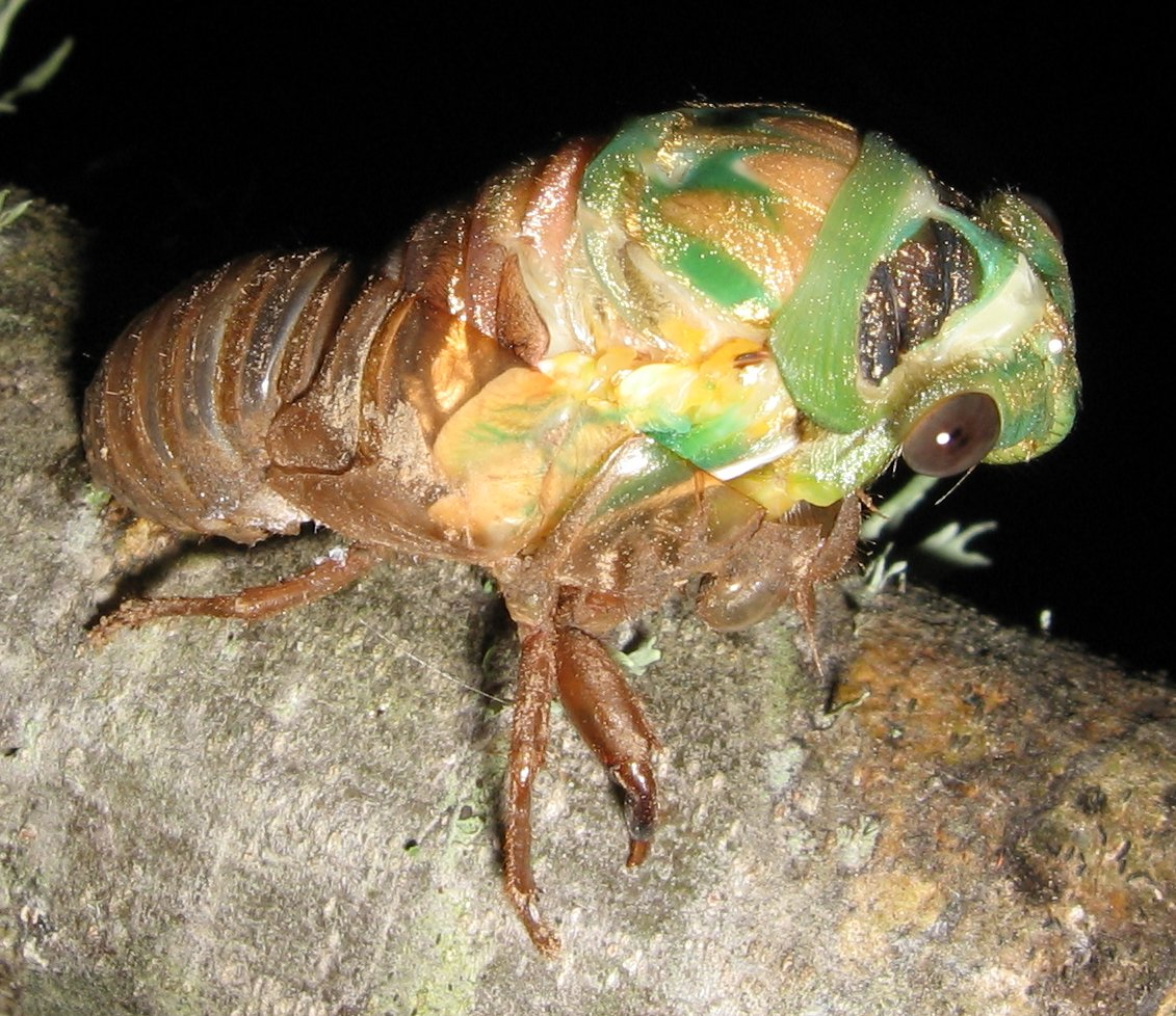 A cicada in the process of shedding.